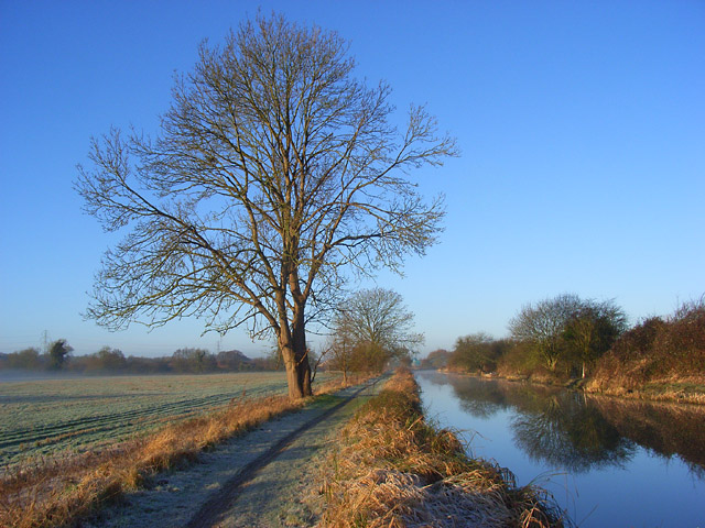 A crisp morning on the stretch of canal between Midgham and Colthrop Locks.